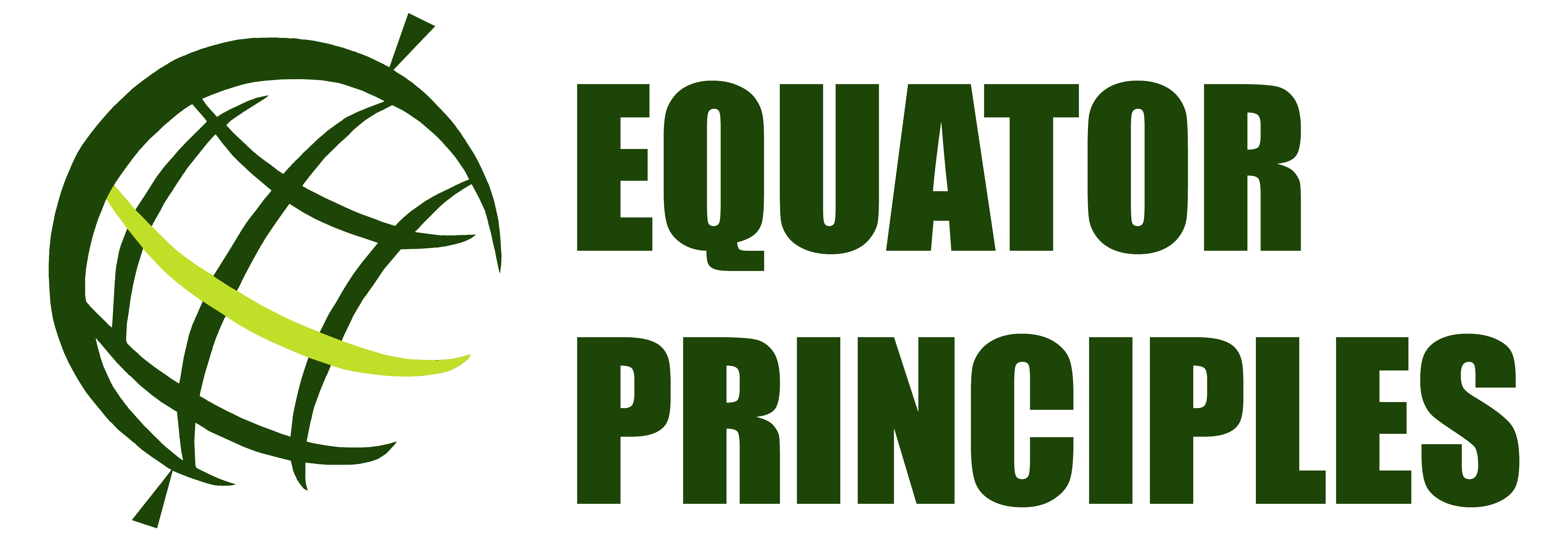 Equator Principles logo